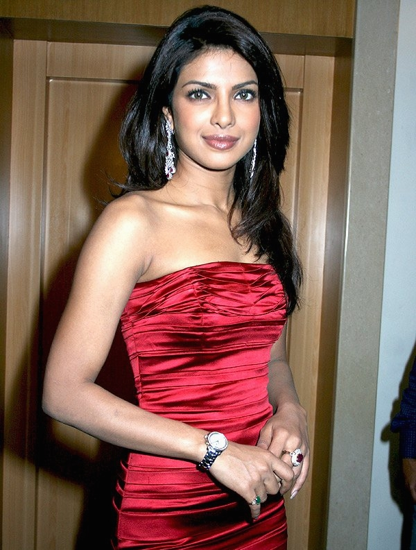 Indian actress & Miss World 2000 Priyanka Chopra, at the Filmfare Magazine launch in Mumbai, October 2008.